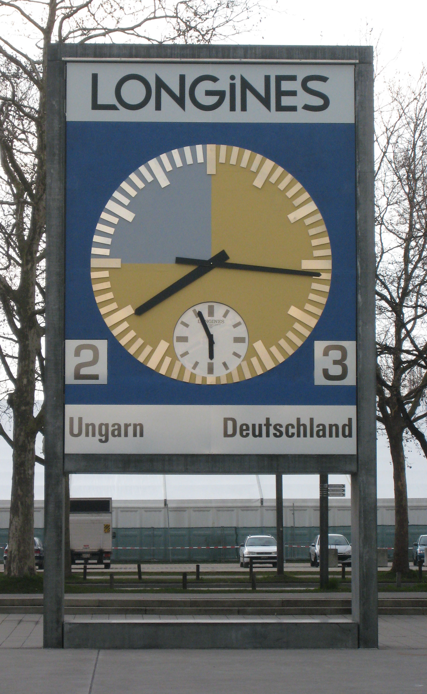 The restored 1954 FIFA World Cup Final match clock, displayed as a memorial at the Stade de Suisse Wankdorf Bern.